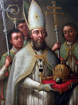 Saint Astrik with Saint Stephen's crown (painting in Kalocsa, 18th century)